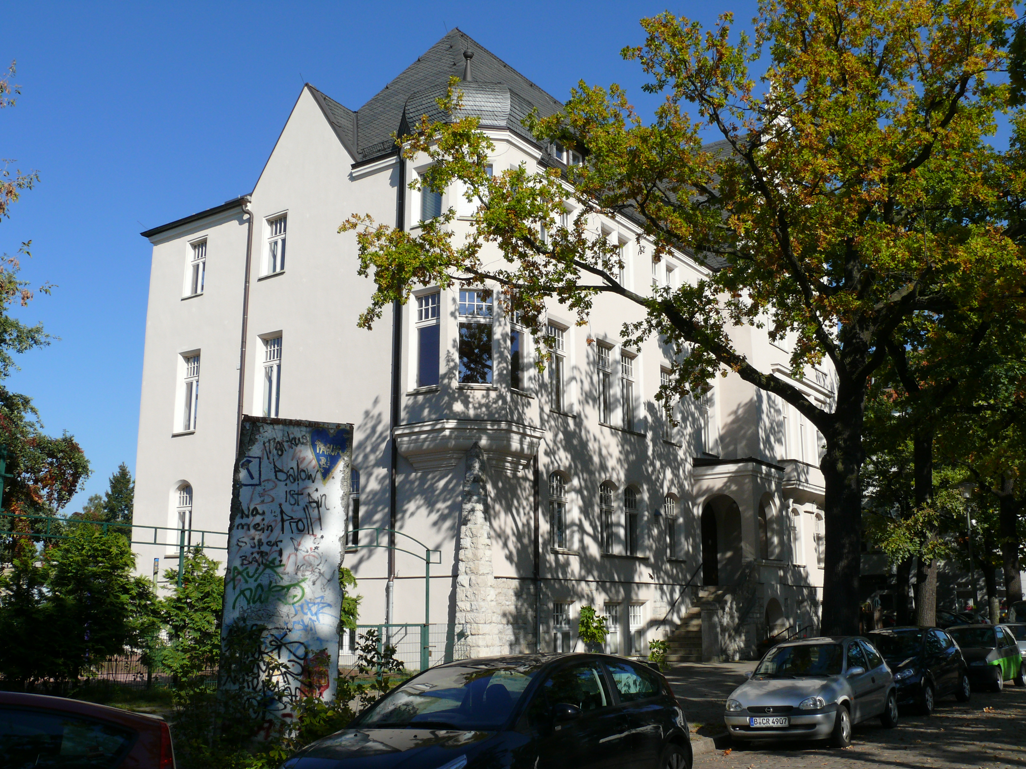 Berlin-Johannisthal Sterndamm